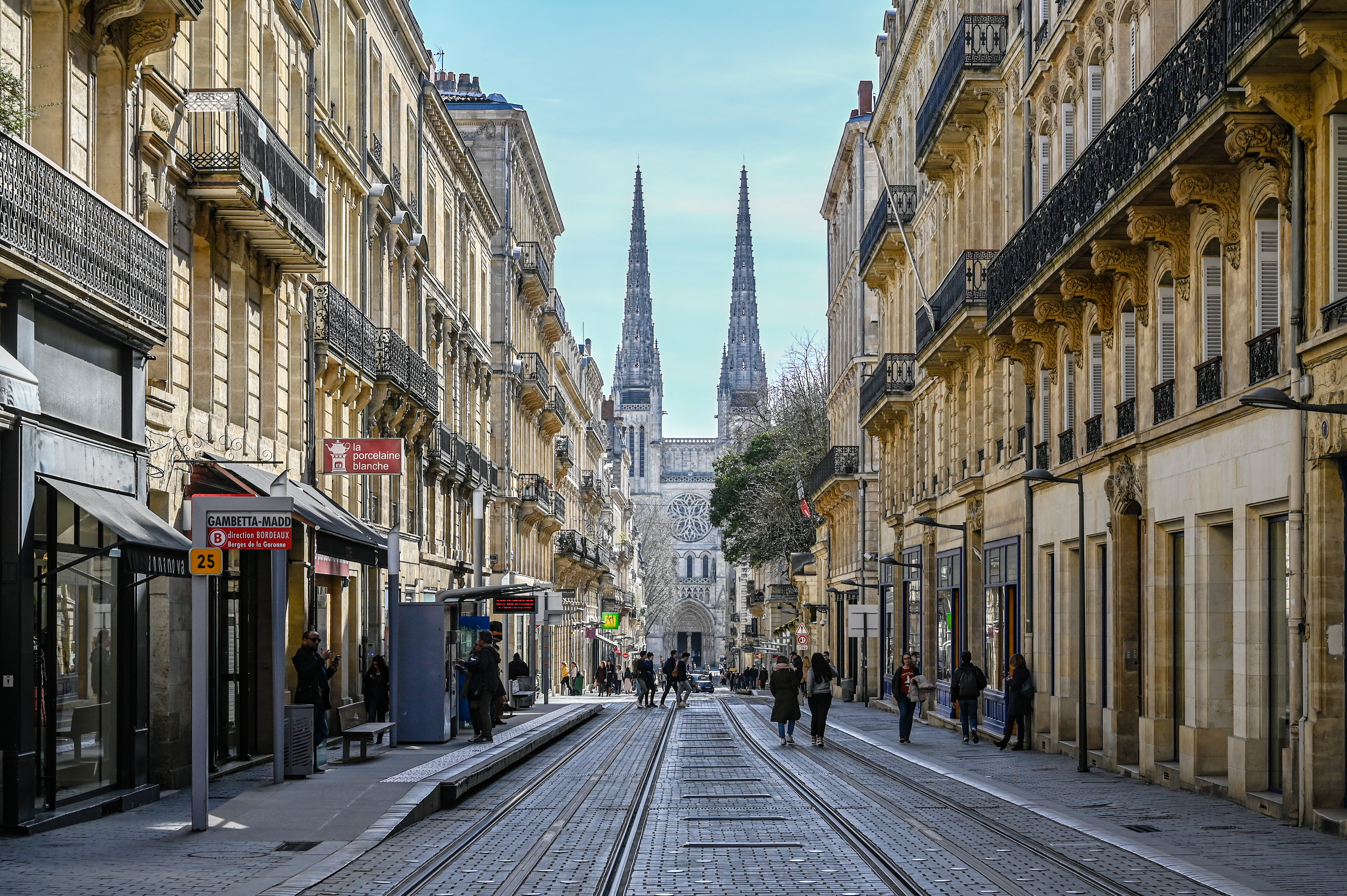 Rue Vital Carles. Kathedrale Saint-André